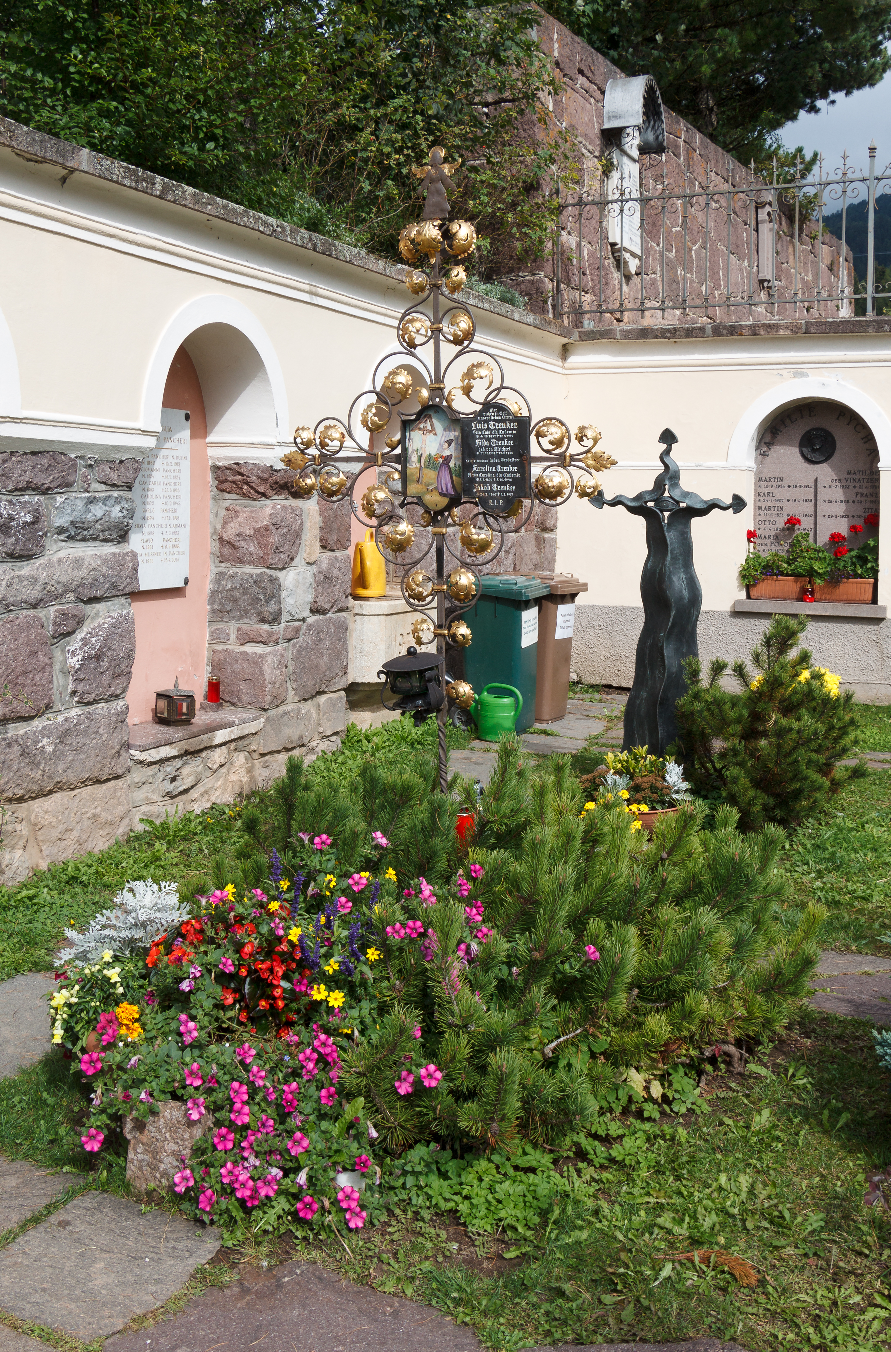 Final resting place of Luis Trenker in the grave of the family Trenker, cemetery of Urtijëi, South Tyrol, Italy.